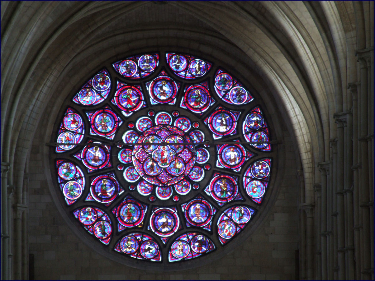 Cathédrale Notre-Dame de Laon (Cathedral Notre Dame of Laon), Laon, France - Interior. The East rose window.